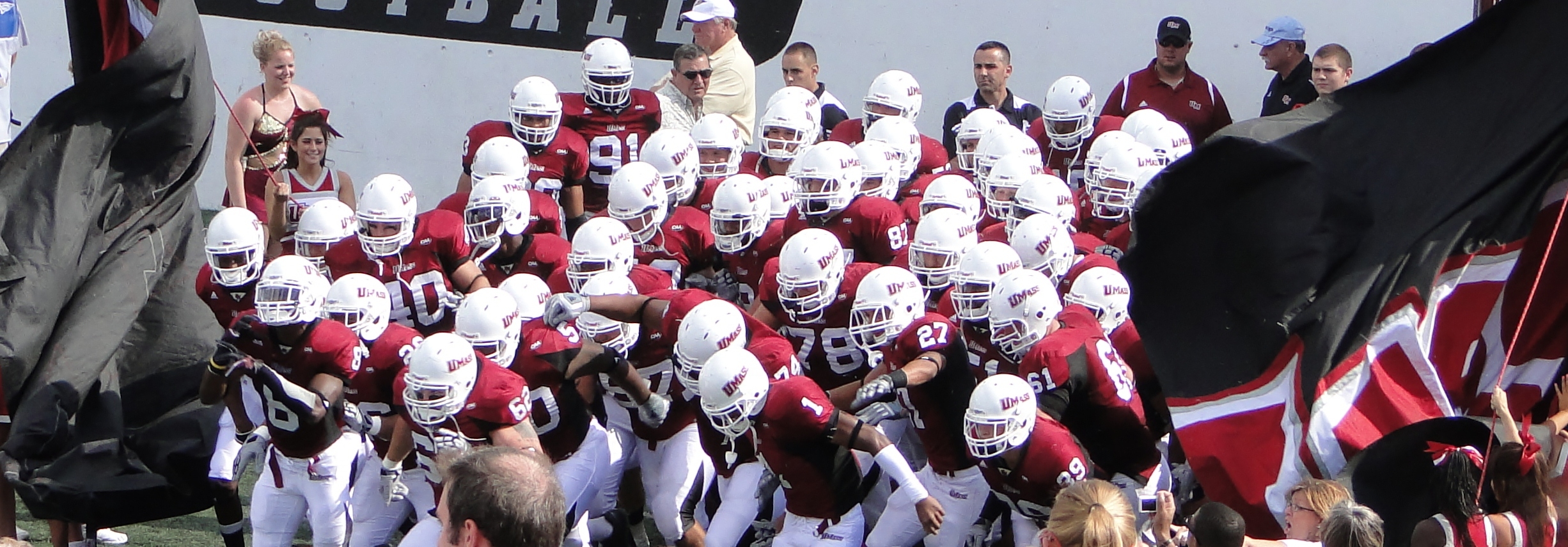 2010 UMass Football Team at Warren McGuirk Alumni Stadium, Amherst, Massachusetts.